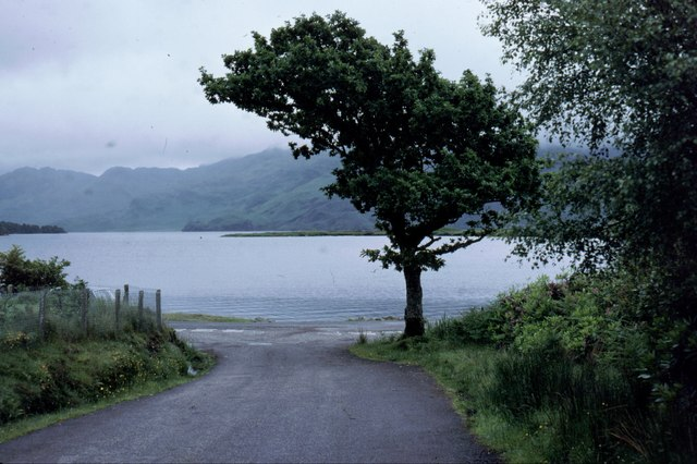 Loch Morar